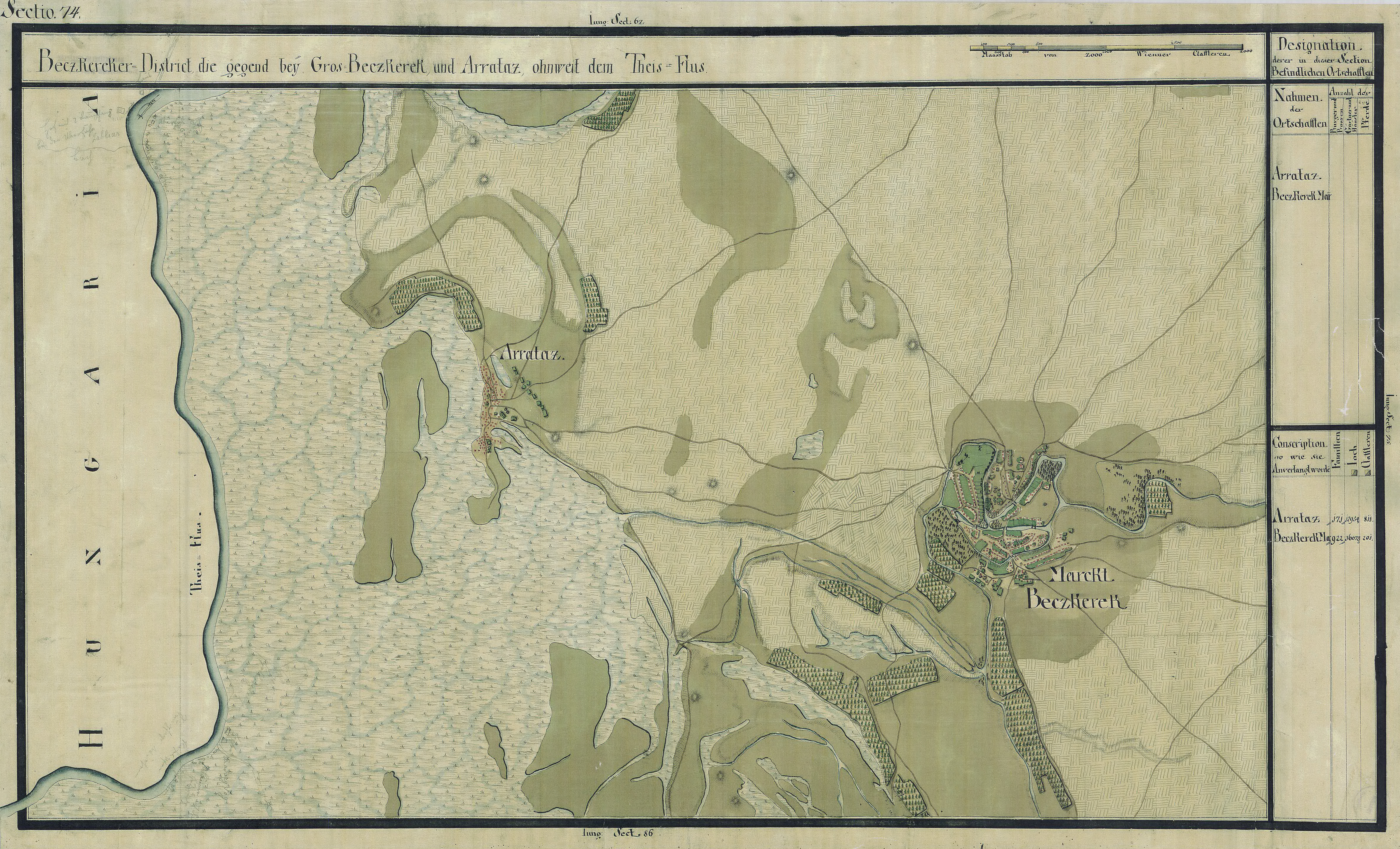 The Banat region in the cadastral maps: Josephinische Landesaufnahme, 1769-72. Josephinische Landaufnahme pg074